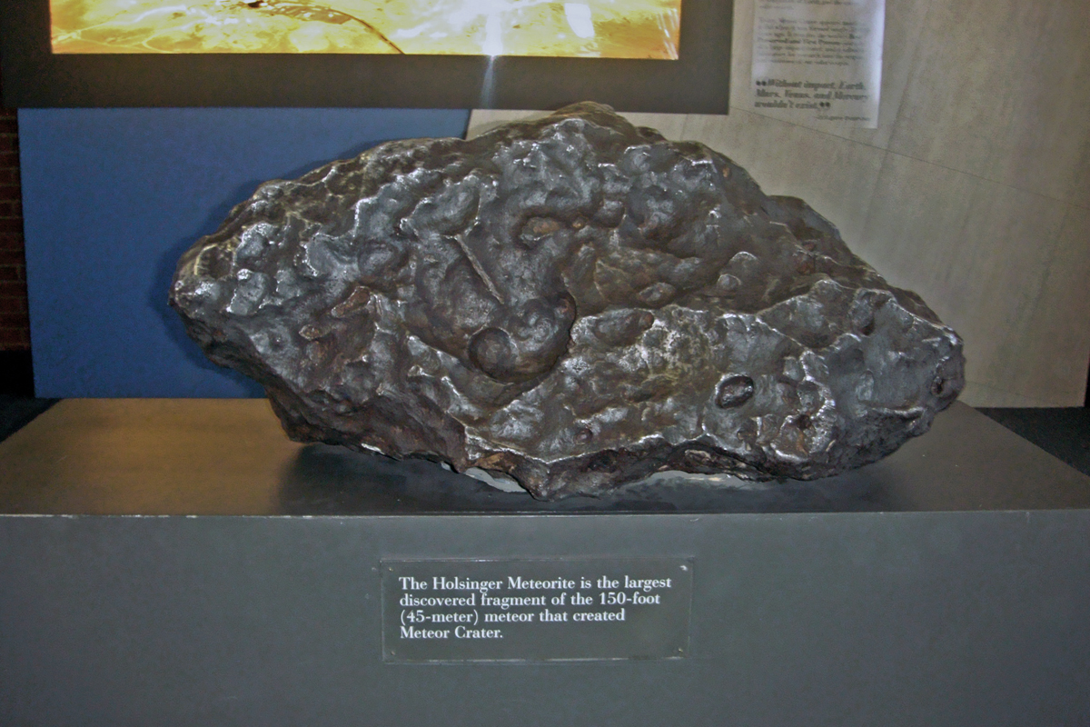 The largest fragment discovered from the meteorite that formed Meteor Crater, exhibited at the tourist center in Meteor Crater, Flagstaff, Arizona.